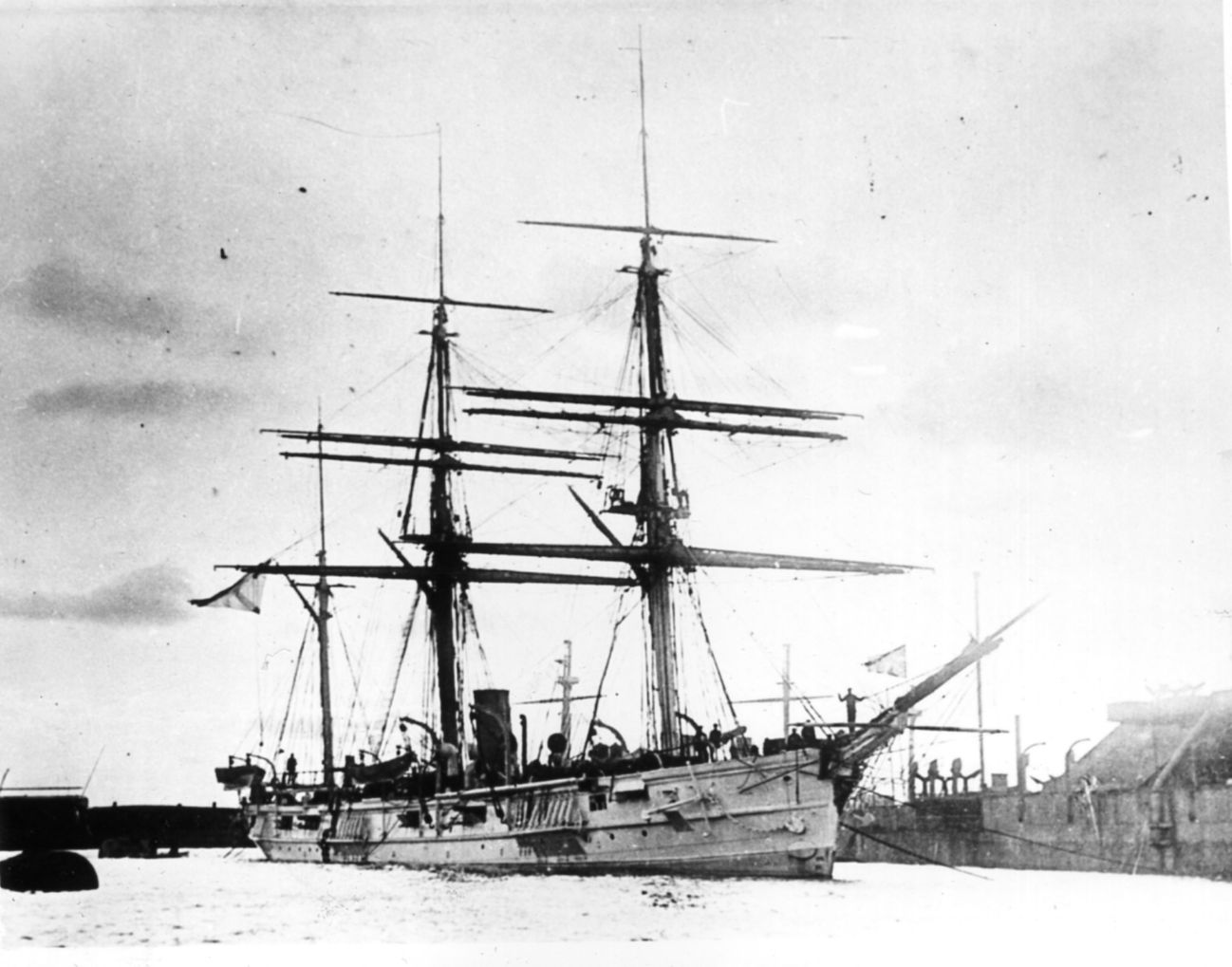 Imperial Russian clipper Dzhigit.